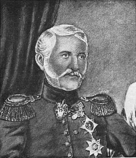 Eyler, Aleksandr Khristoforovitch